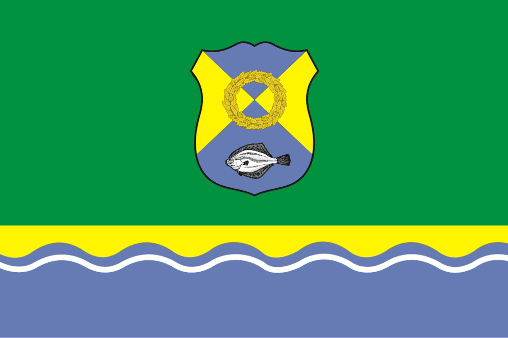 Flag of Zelenogradsk, Kaliningrad Region, Russia